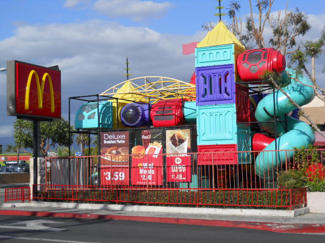 McDonald's Restaurant with prominent kids' playland, Panorama City, CA